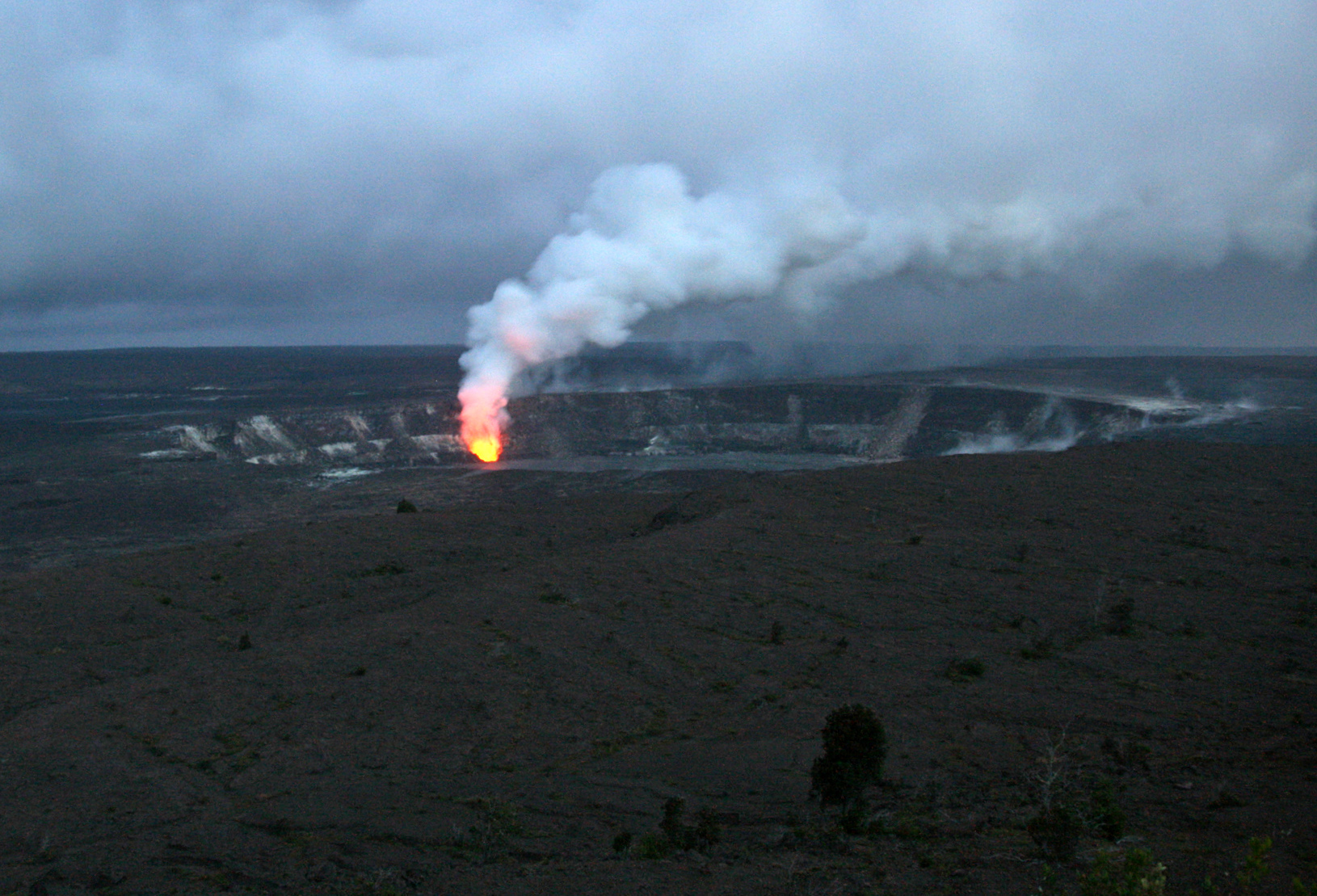 Sulfur dioxide emissions from the Halema`uma`u vent, Kīlauea glows at night.